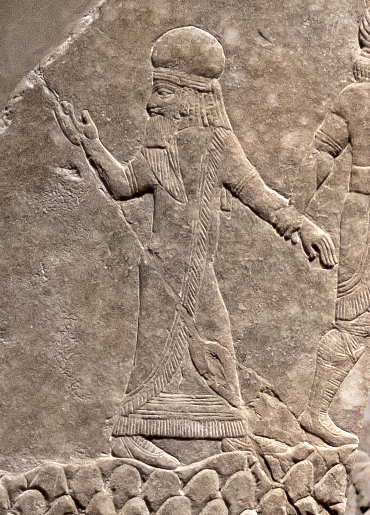 King Ummanaldash captured by the Assyrians